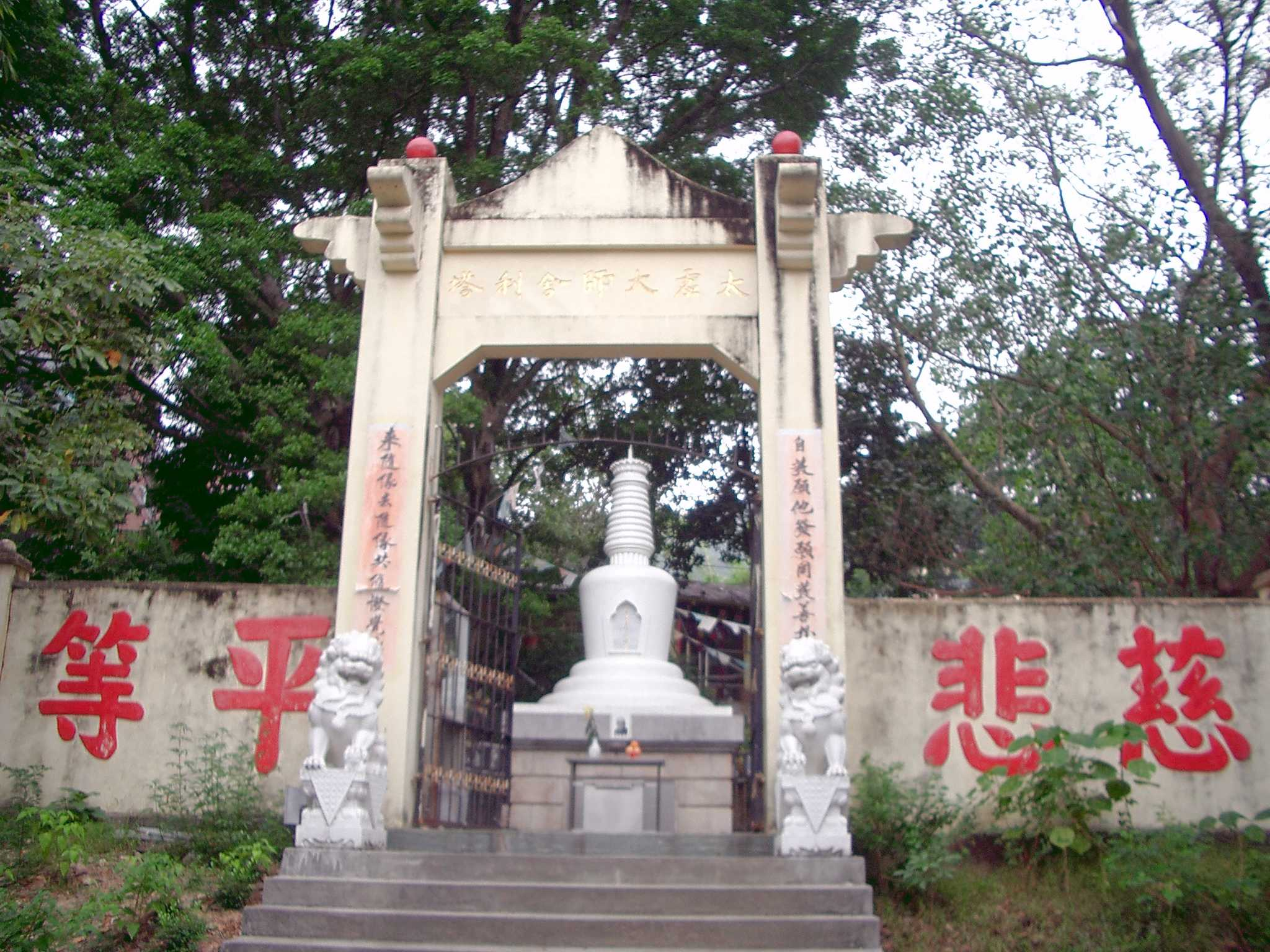 Buddhist Relics Pagoda of Nam Tin Chuk Temple, Fu Yung Shan, Tsuen Wan, Hong Kong